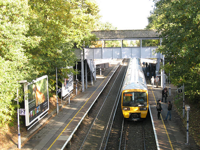 Falconwood station A 'Networker' electric multiple-unit calls at Falconwood station with the 13.22 Gravesend to Charing Cross service.